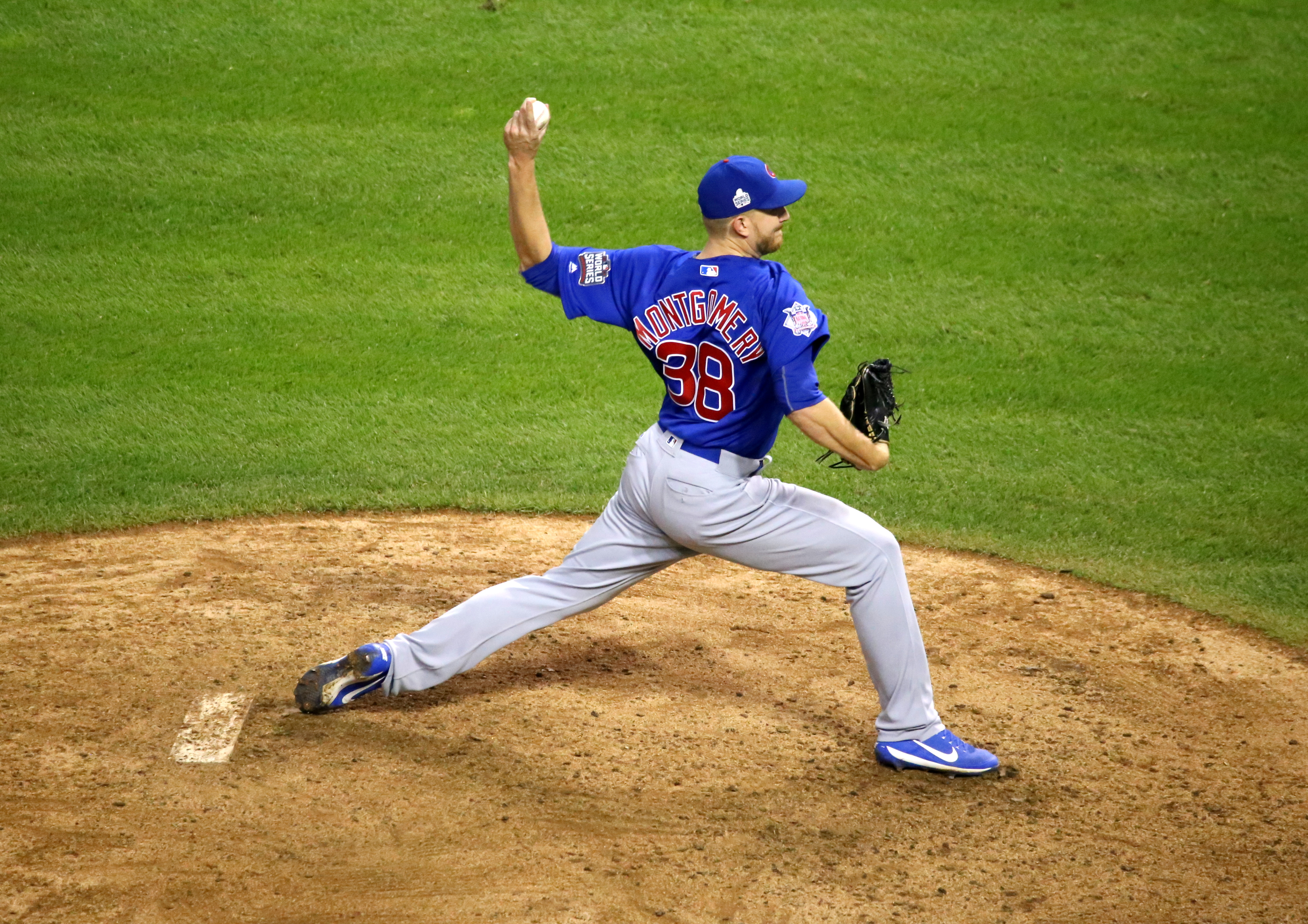 Cubs reliever Mike Montgomery delivers a pitch in the 10th inning of World Series Game 7.